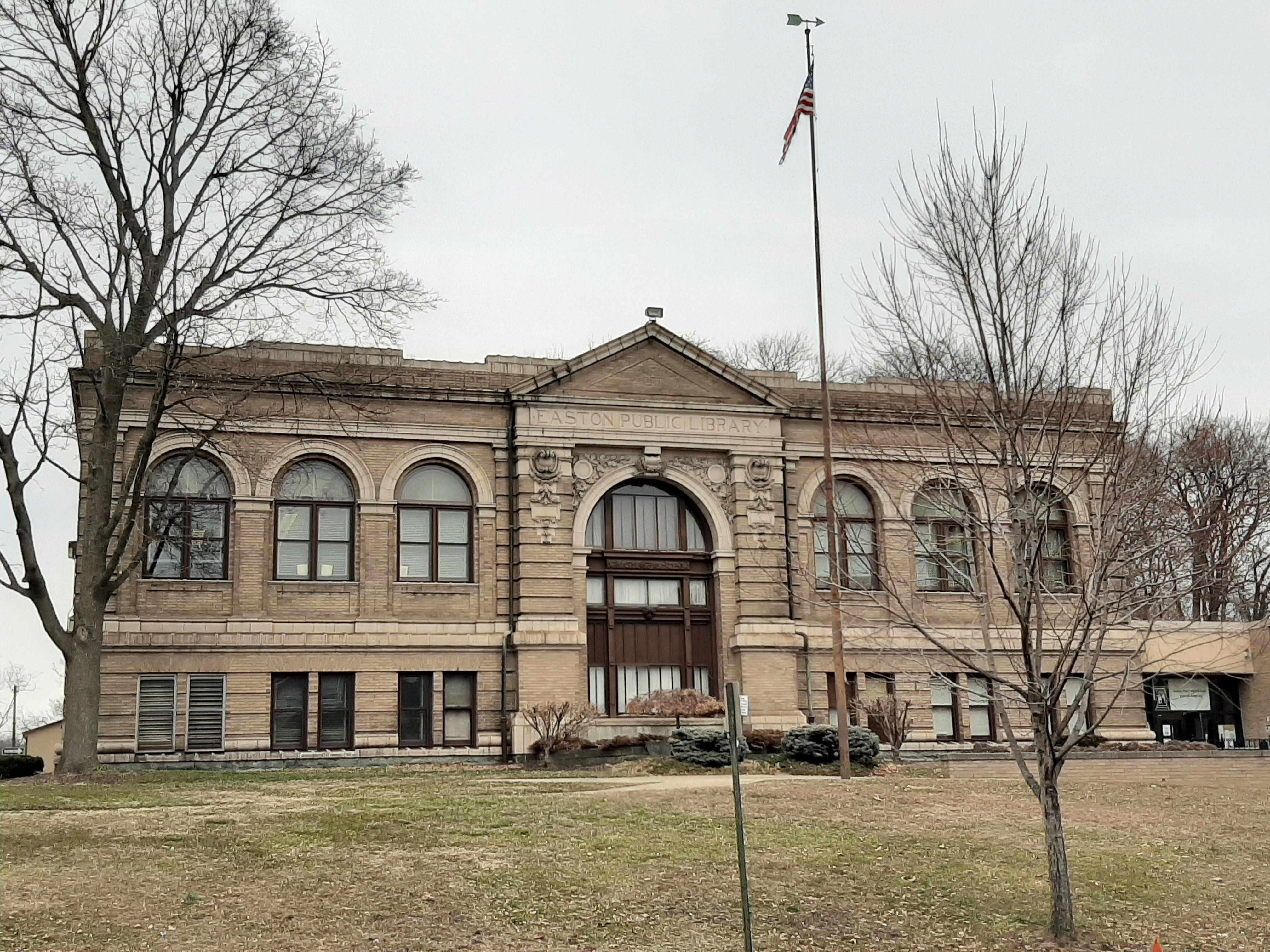 A public library serving the residents of Easton, PA.